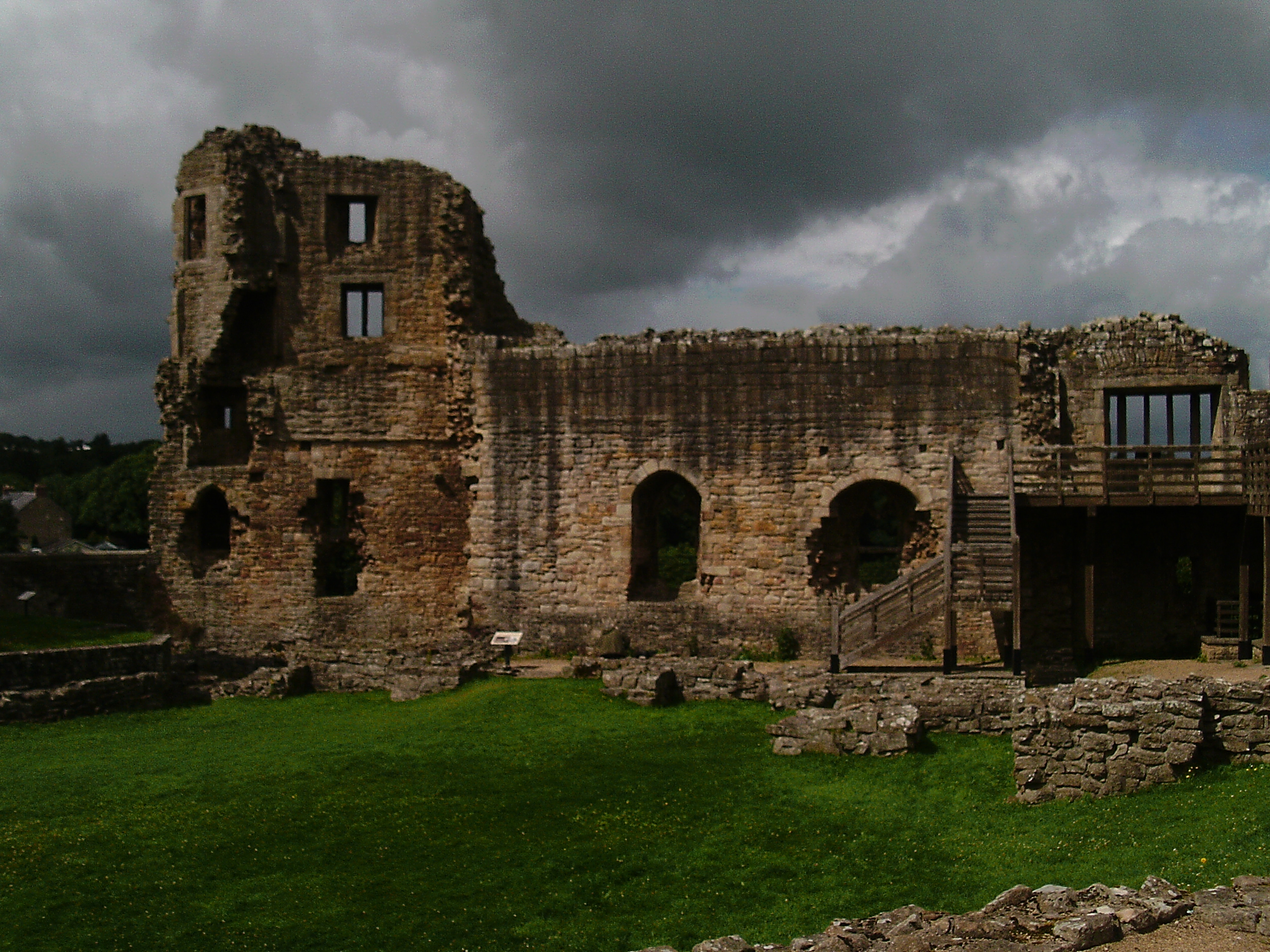 Barnard Castle, Mortham Tower, Great Hall and Great Chamber